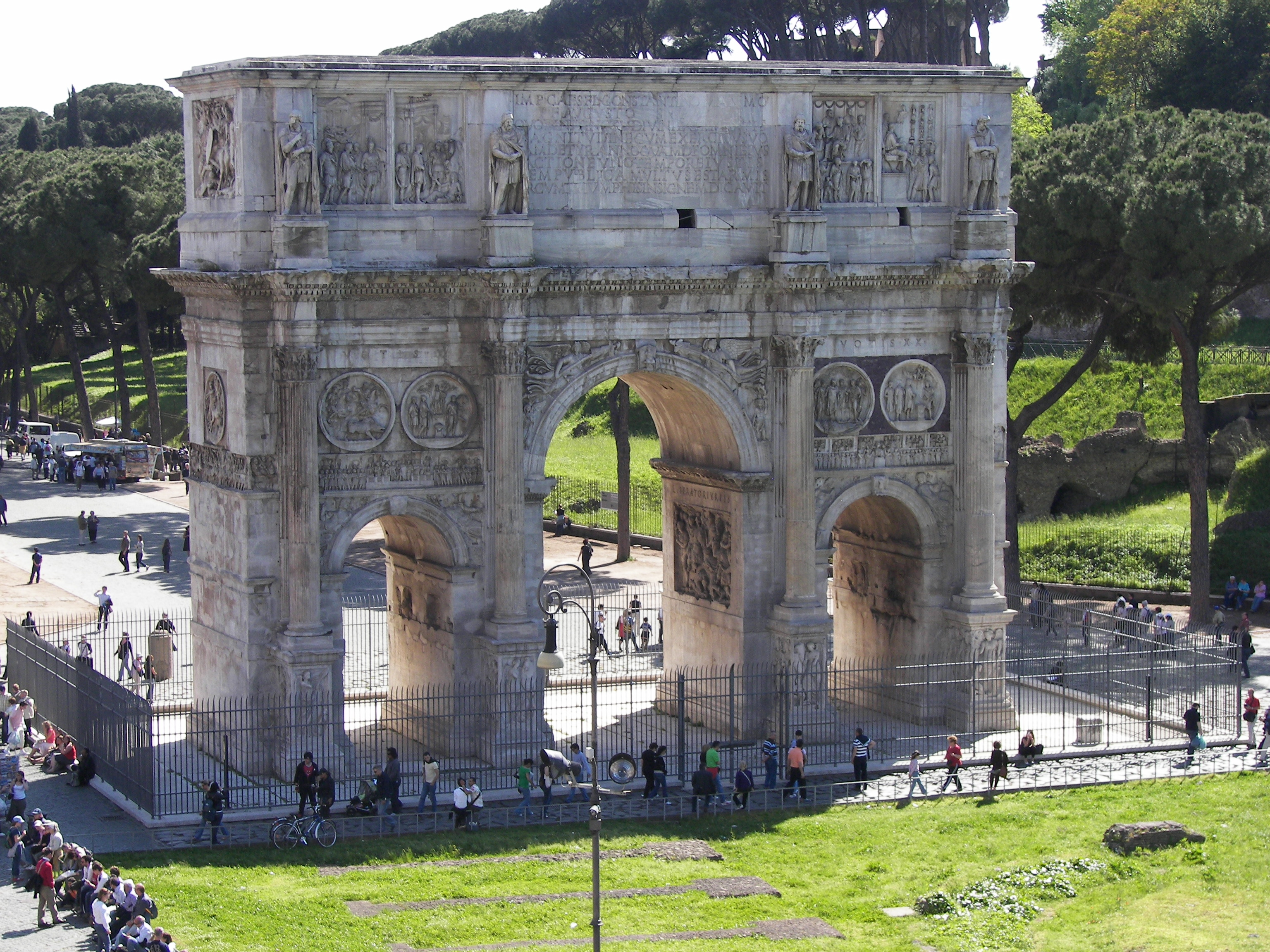 Arch of Constantine in Roma.